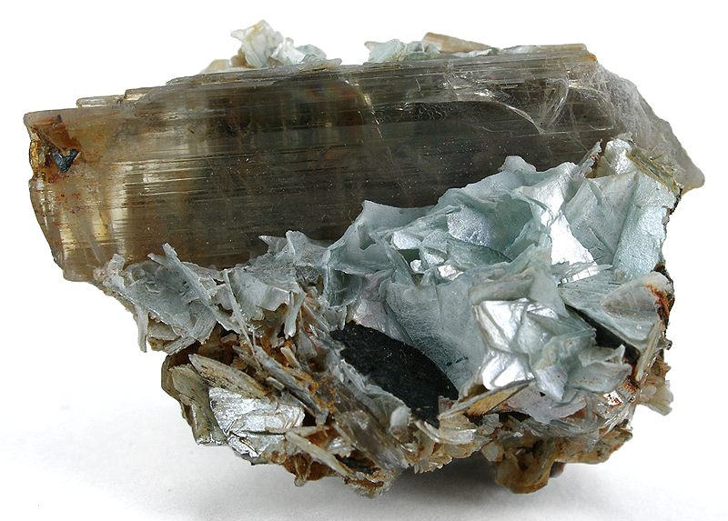 Diaspore, Margarite Locality: Mugla Province, Aegean Region, Turkey (Locality at ) Size: miniature, 3.8 x 2.6 x 2.3 cm DIASPORE on MARGARITE Gem diaspore from this classic old locality in Turkey sets the standard for the species so far as I am concerned. This specimen hosts a 3.7-cm crystal , doubly-terminated crystal perched in matrix of crystallized margarite. Matrix specimens are VERY RARE for this locality! Usually these come out only as loose crystals, loose floaters perhaps. Matrix specimens are most uncommon. This can be displayed horizontally or vertically to equal effect.